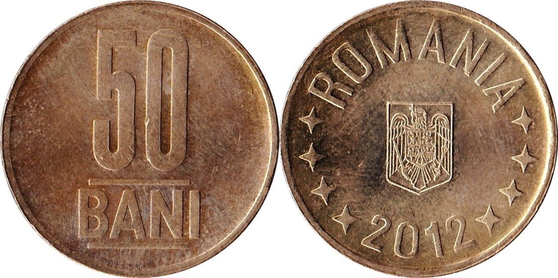 Coin from Romania - 50 bani, 2012